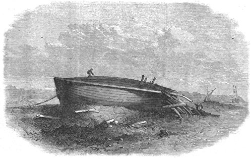 Wreck of the lottie sleigh from an unknown newspaper of 1864